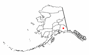 Adapted from Wikipedia's AK borough maps by Seth Ilys.